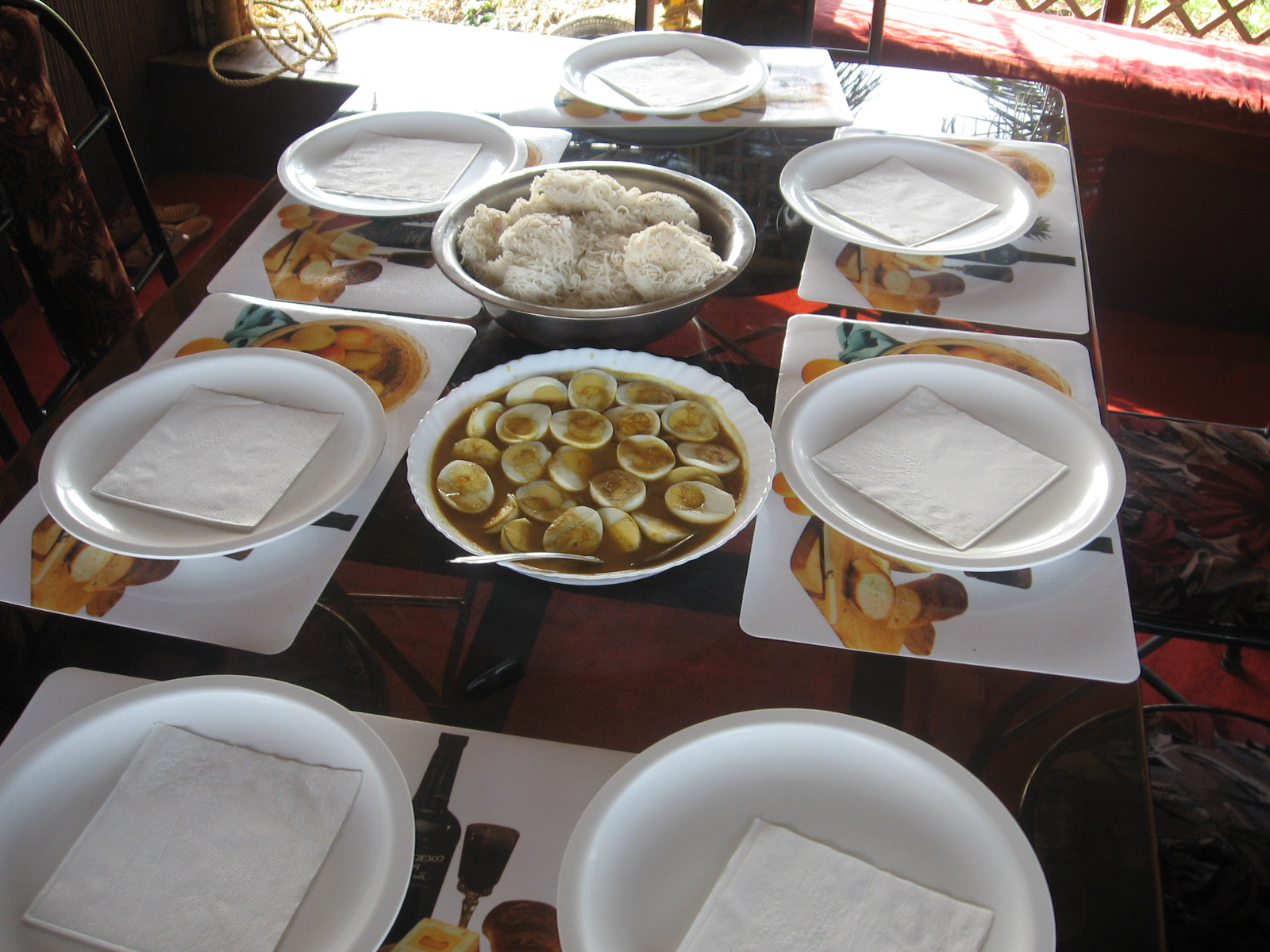 Breakfast served on a Kettuvallam- Idiyappam (steamed noodles made by mixing rice flour and coconut) & egg curry